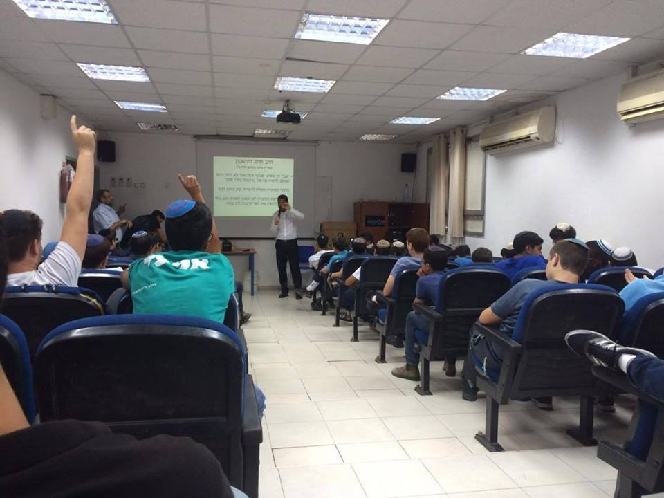 Asa Keisar in a Yeshiva in Bnei Brak, Israel